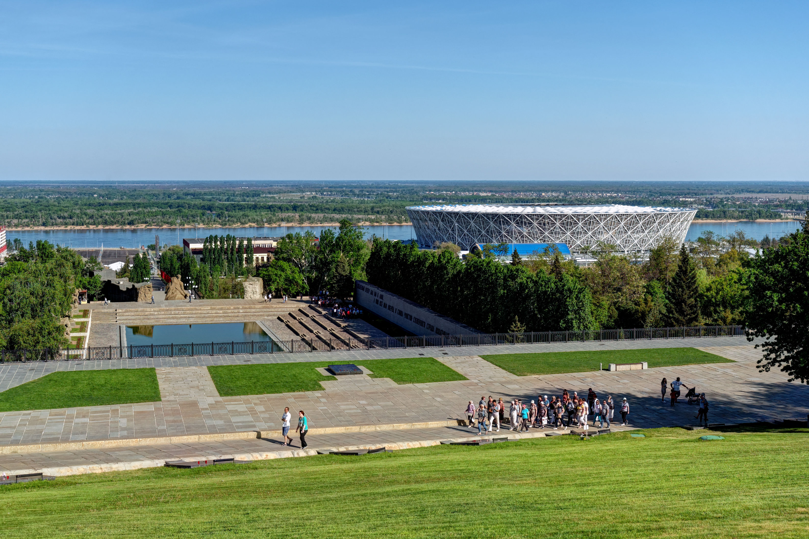 Volgograd. Mamayev Kurgan. Volgograd Arena